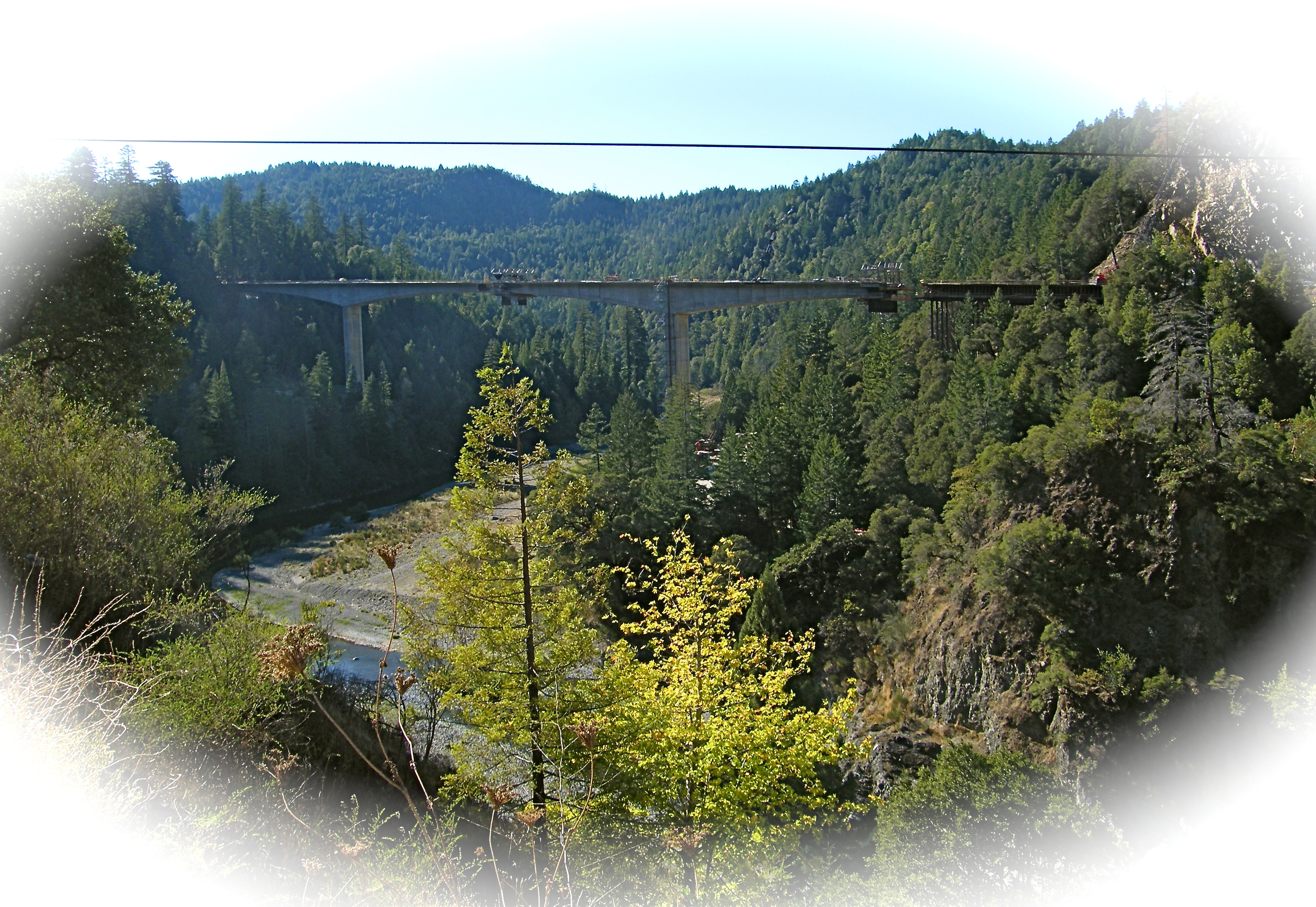 South span of the Confusion Hill Bridge bypass